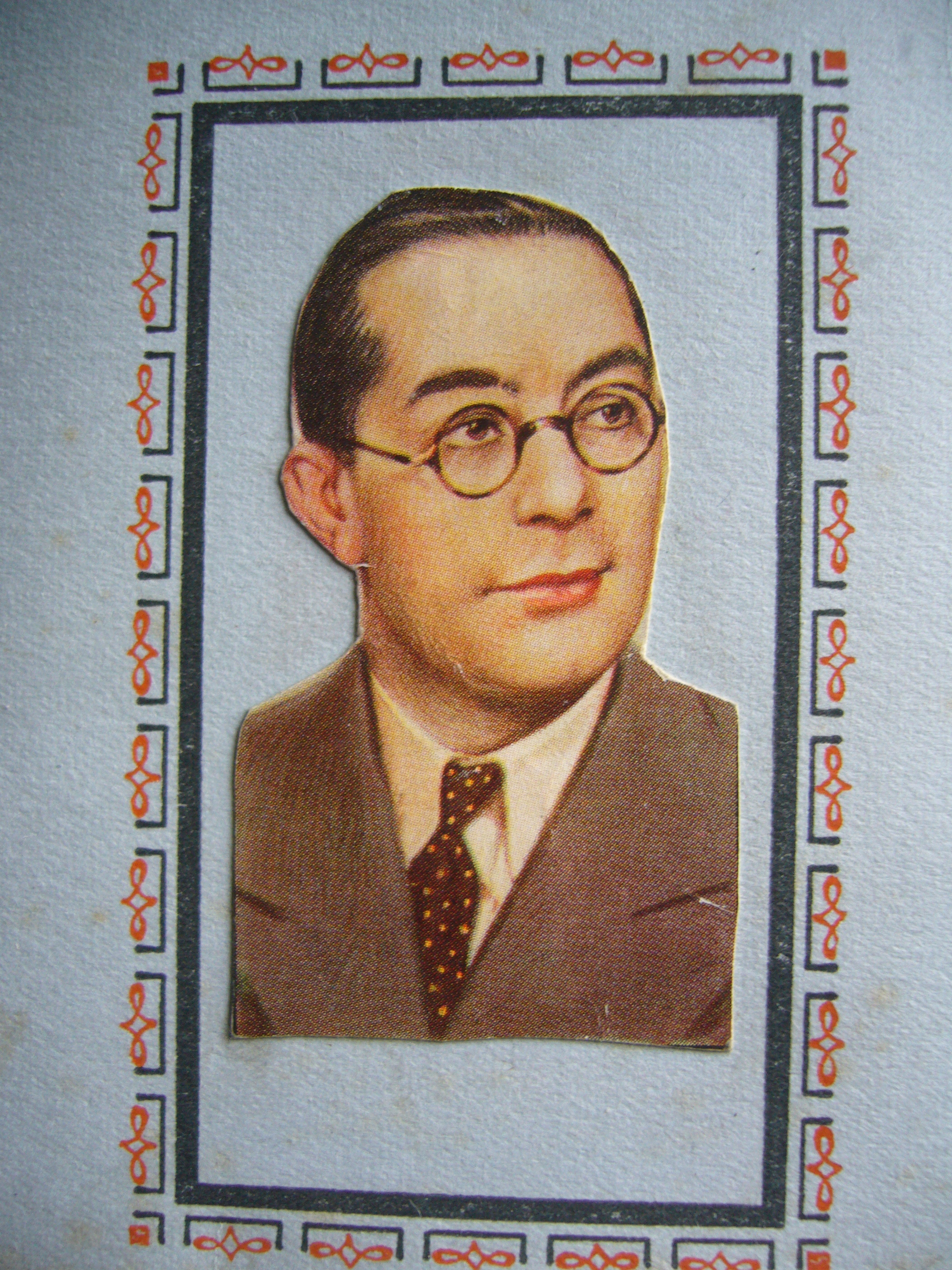 photo of Wills's cigarette card from 'Radio Celebrities' series